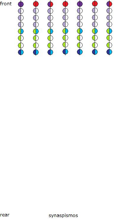 Two enomotiæ in sunaspismos formation.